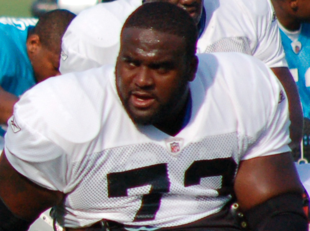 The Carolina Panthers' training camp on 8/6/2008.